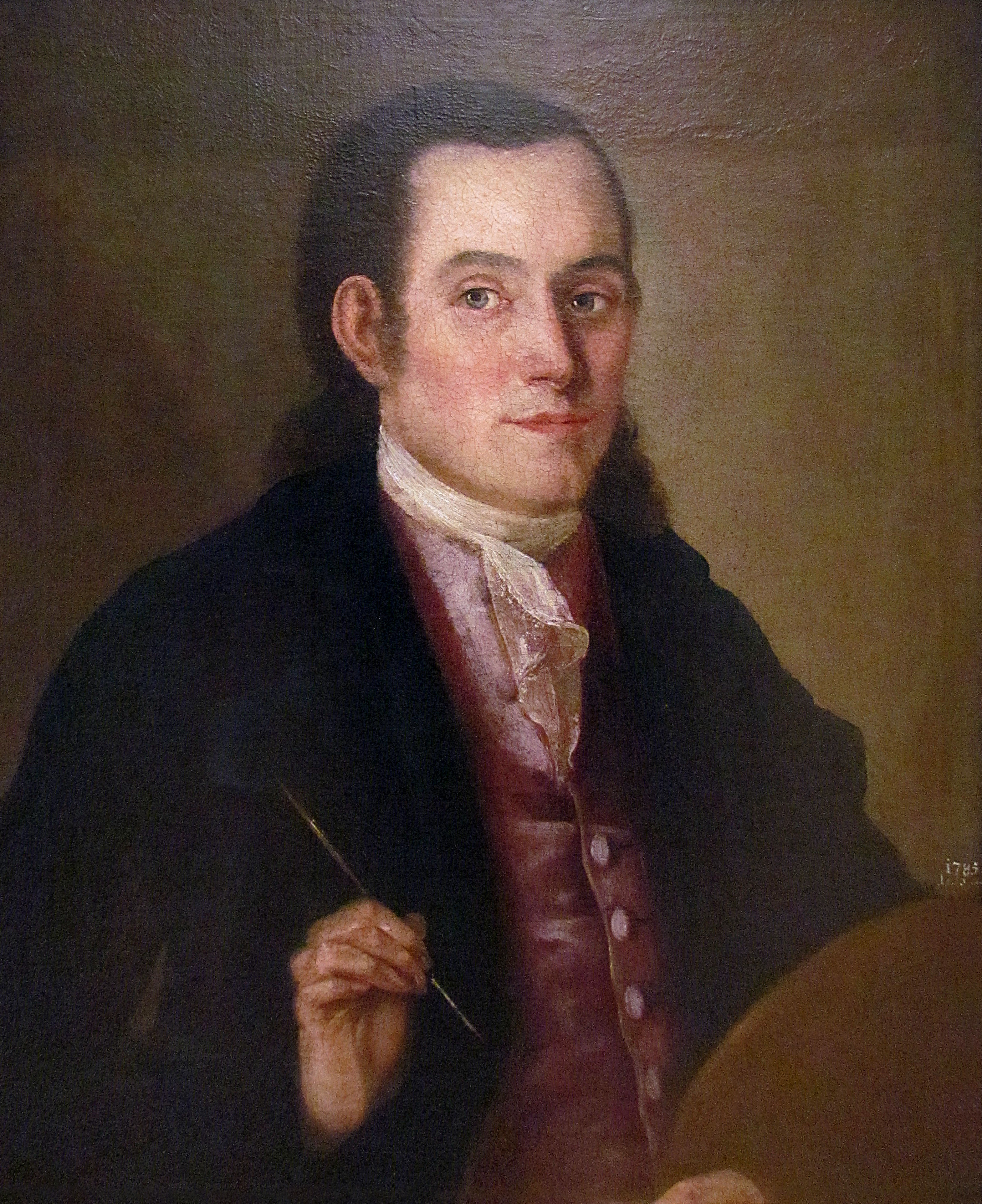 Nikola Nešković, self-portrait, cca 1775, National Museum of Serbia